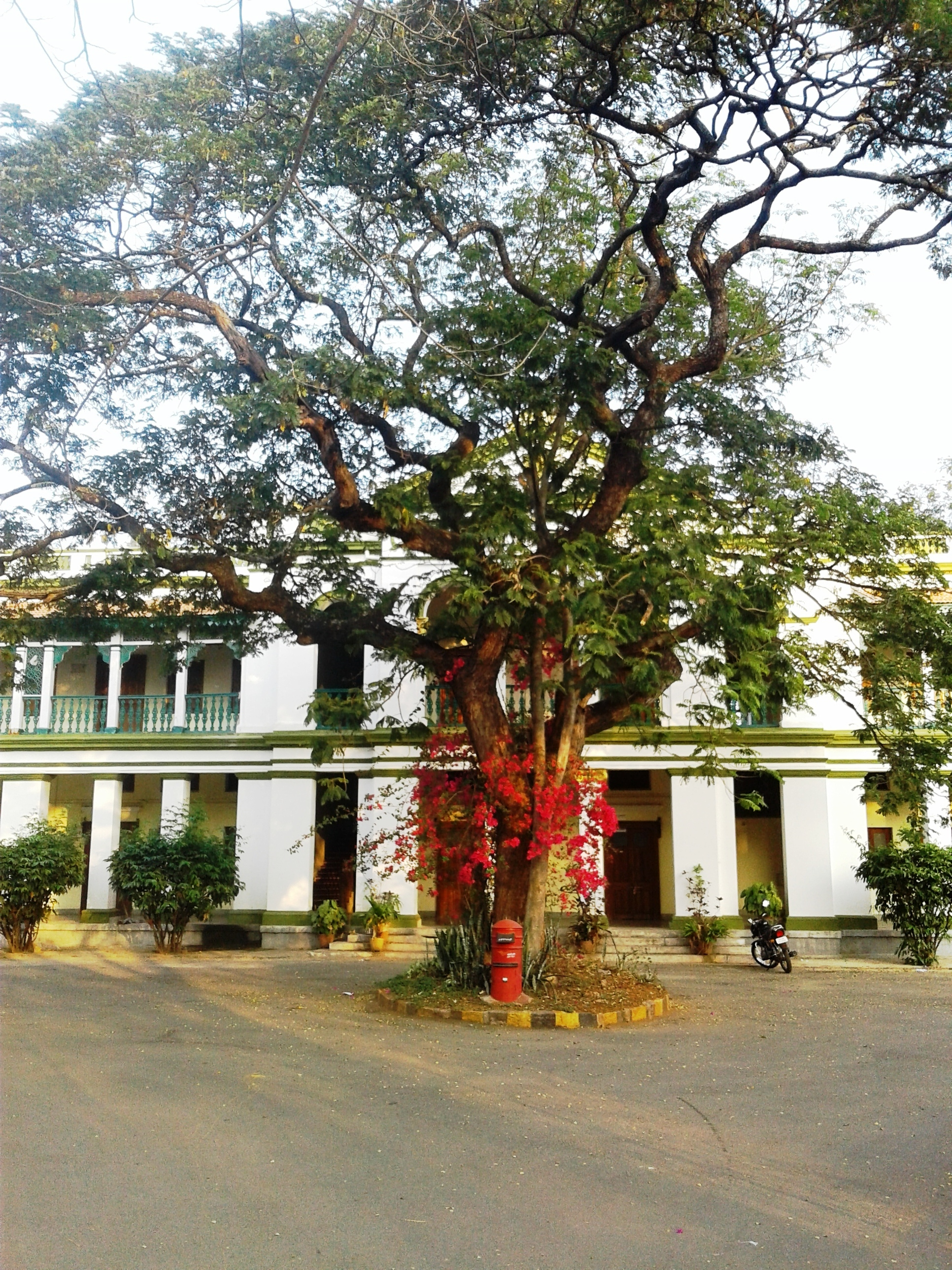 Dewans Road, Mysore city, Karnataka state, India.